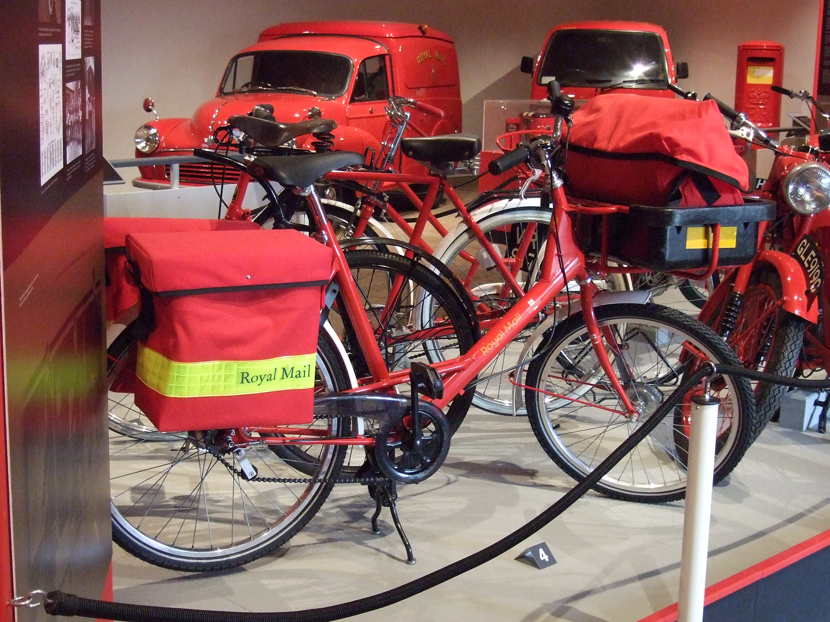 The Pashley Mailstar bicycle came into use in 2000. It is shown here with panniers and a Royal Mail delivery pouch. The Mailstar has a stepover unisex frame and a twist-action control is incorporated into the steering handle for the five-speed Sram gears. For more information on this exhibition please visit: our website